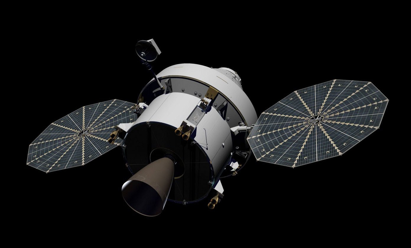 JSC2009-E-145324 (July 2009) --- The Orion crew exploration vehicle, in flight, is contrasted by the darkness of space in this artist's rendering. Photo credit: NASA